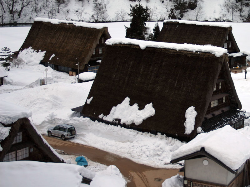 Gokayama Old Villeage in Japan. Gokayama include Japanese World Heritage site Historic Villages of Shirakawa-go and Gokayama.